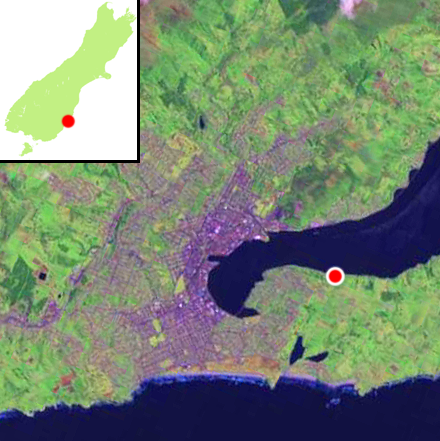 Map showing location of Challis, Dunedin, New Zealand. Based on NASA satellite map